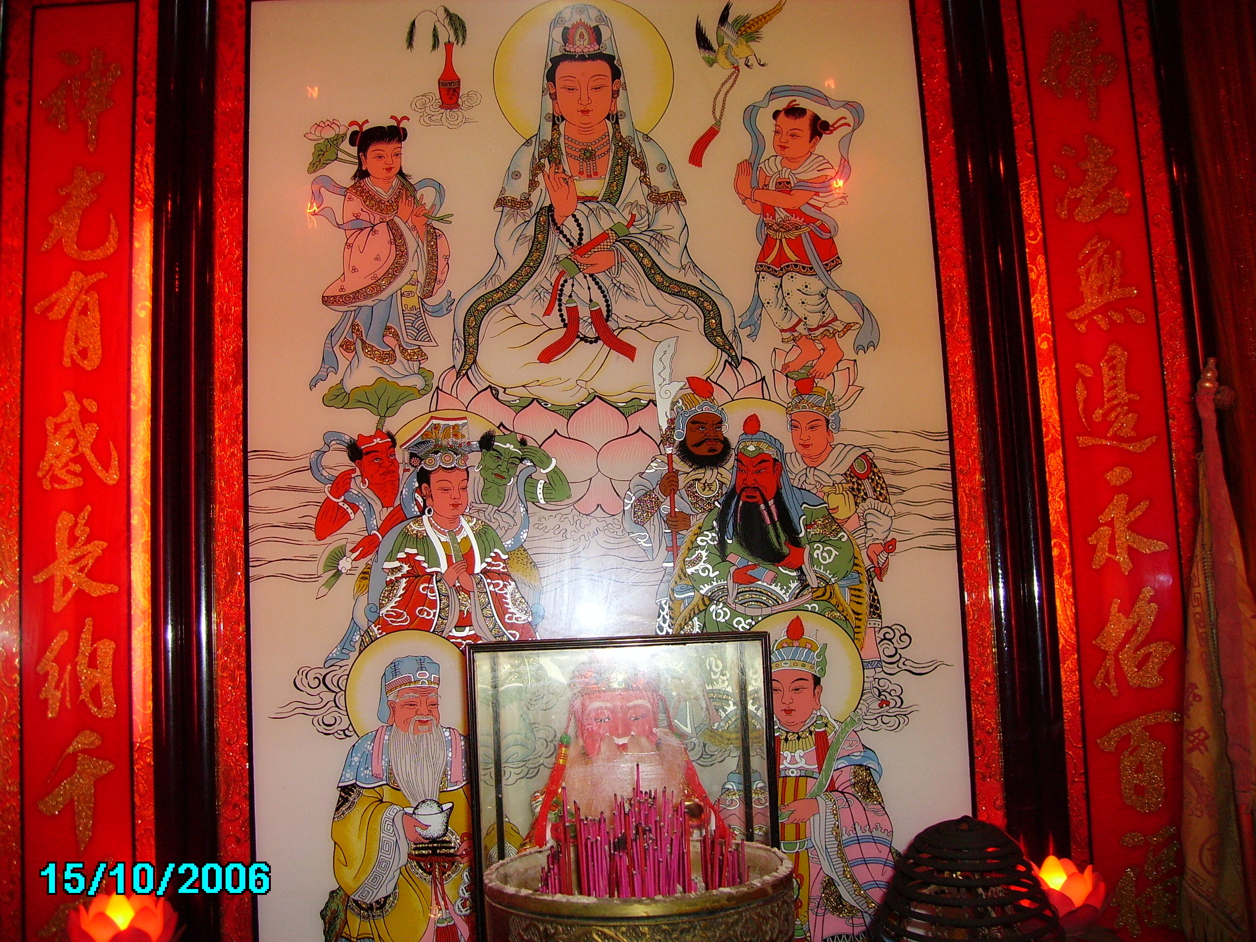 Kuan-Yin-Picture in Taiwan